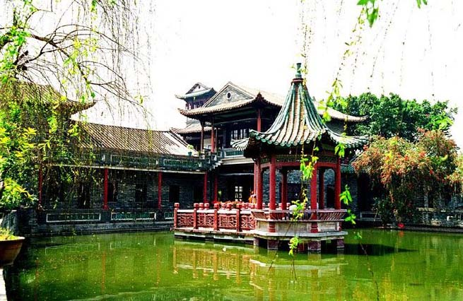 KeYuan View06